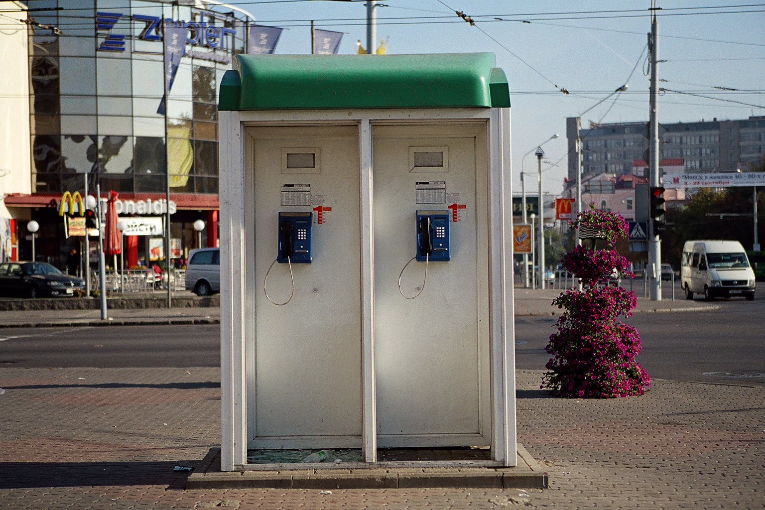 Telephone booths in Minsk, Belarus on 23rd September in 2007.